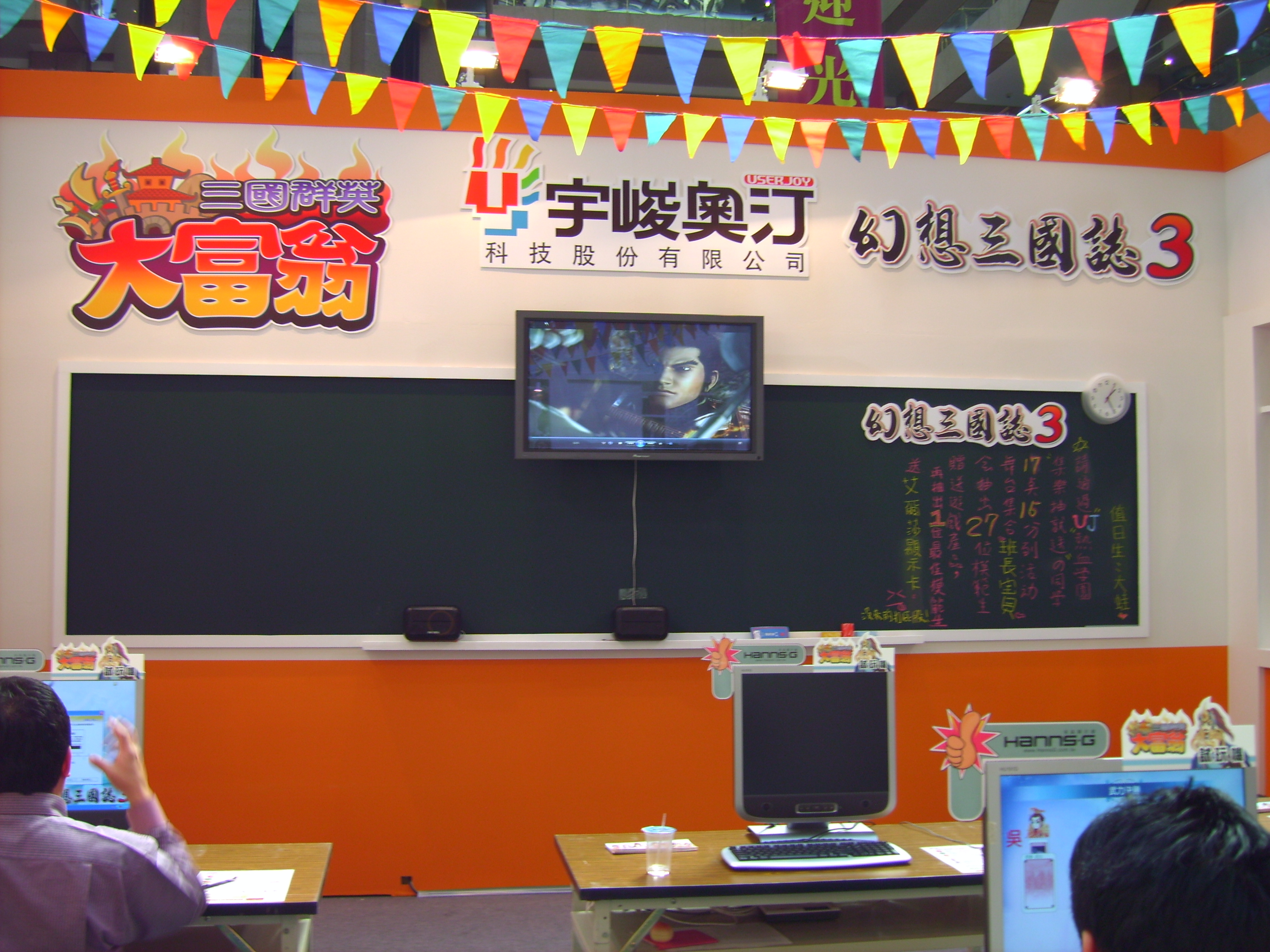 2007 Taipei Game Show: UserJoy Technology provided experience area lika a classroom.